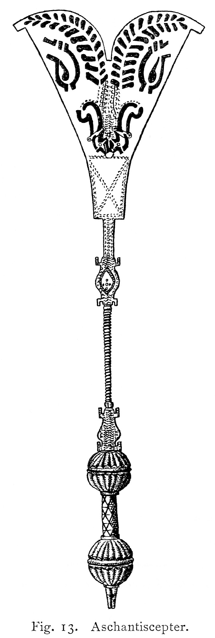 scepter of an Ashanti chief